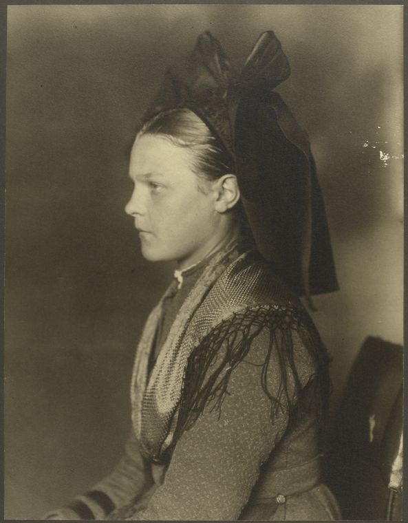 Digital ID: 418033. Sherman, Augustus F. (Augustus Francis) -- Photographer. [ca. 1906] Notes: Identified as 'Girl from the Kochersberg region near Strasbourg, Alsace' in Peter Mesenholler 'Augustus F. Sherman: Ellis Island Portraits 1905-1920' (c1905) p.30-31. Source: William Williams papers / Photographs of immigrants ( Repository: The New York Public Library. Manuscripts and Archives Division. See more information about and others at Persistent URL: Rights Info: No known copyright restrictions; may be subject to third party rights (for more information